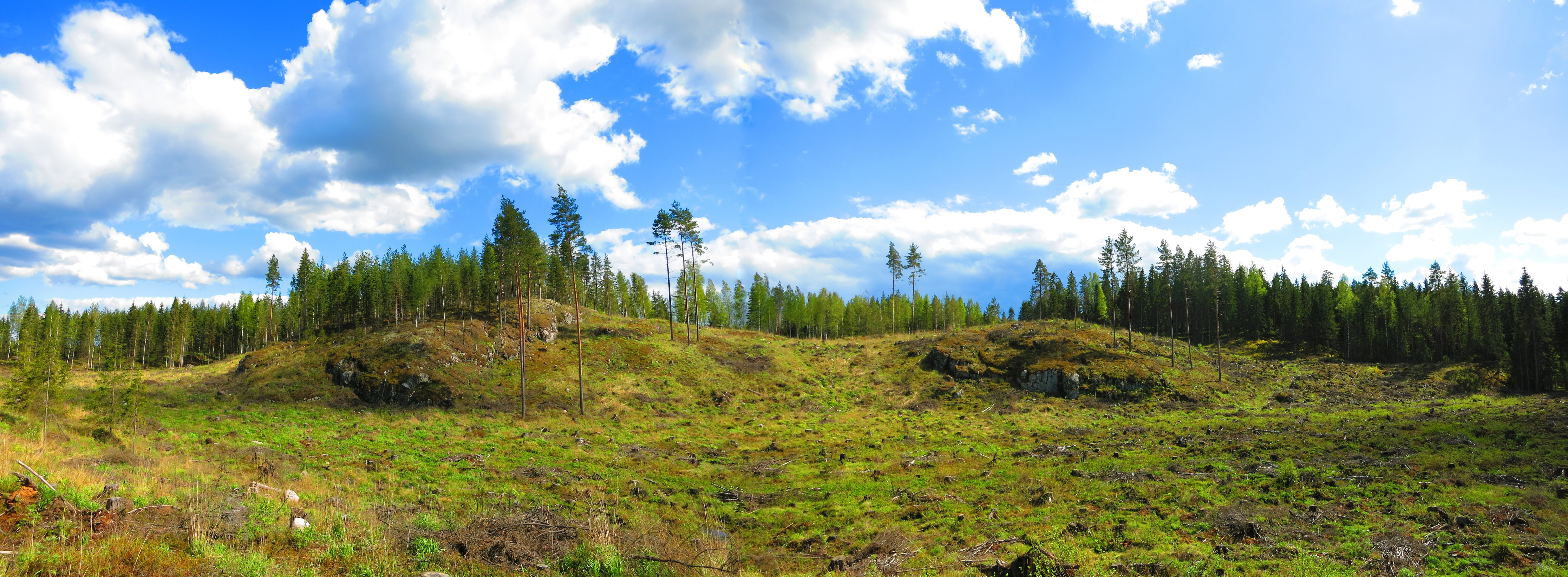 Clear cut area near Hyvinkää (Finland)